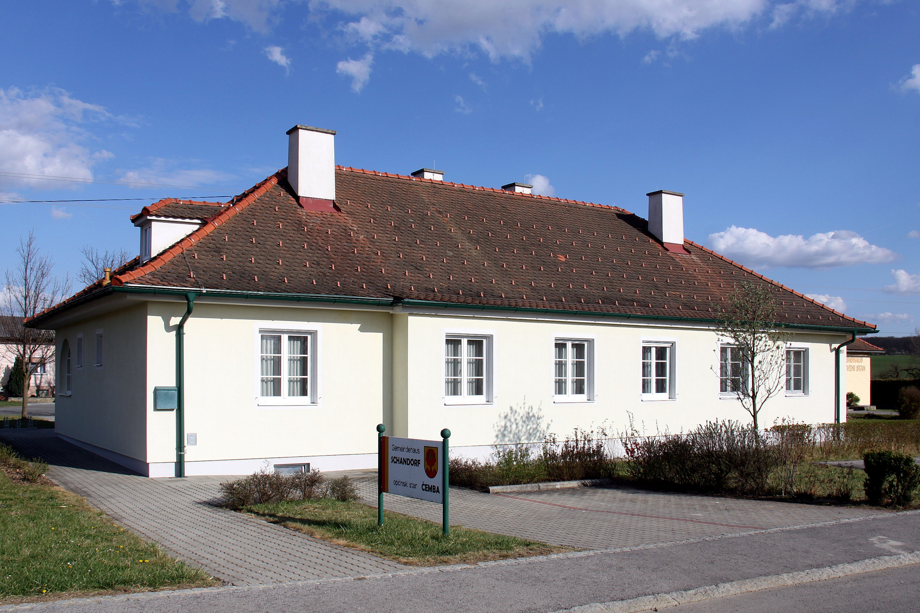 Schandorf - municipal office